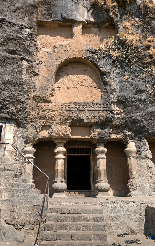 Lenyadri Chaitya external view